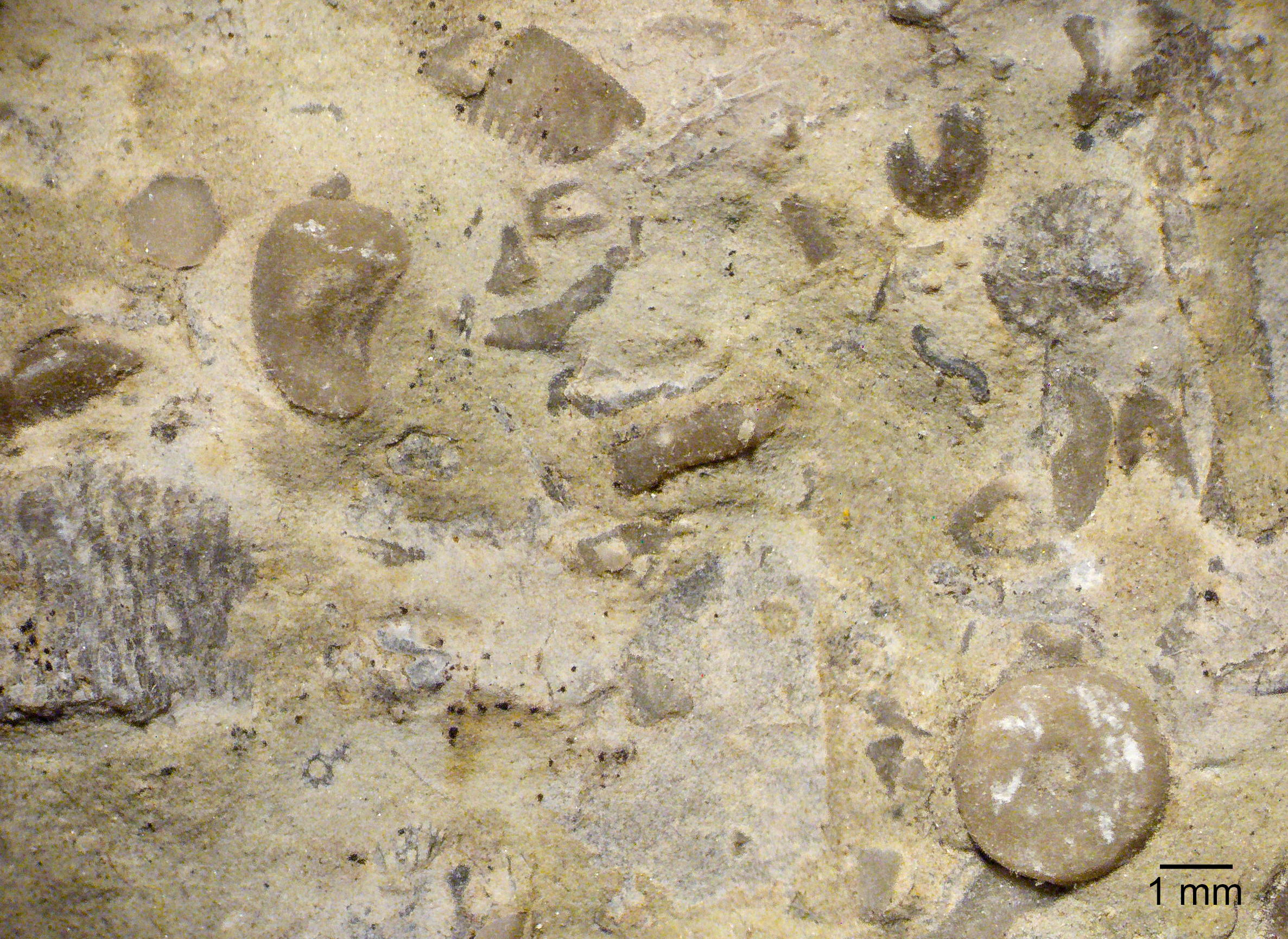 Surface view of a rock collected from Wren's Nest Nature Reserve, Dudley, UK, showing Silurian sea bed fossils